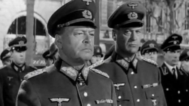 Paul Hartmann (left) & Curd Jürgens in The Longest Day - trailer (cropped screenshot)